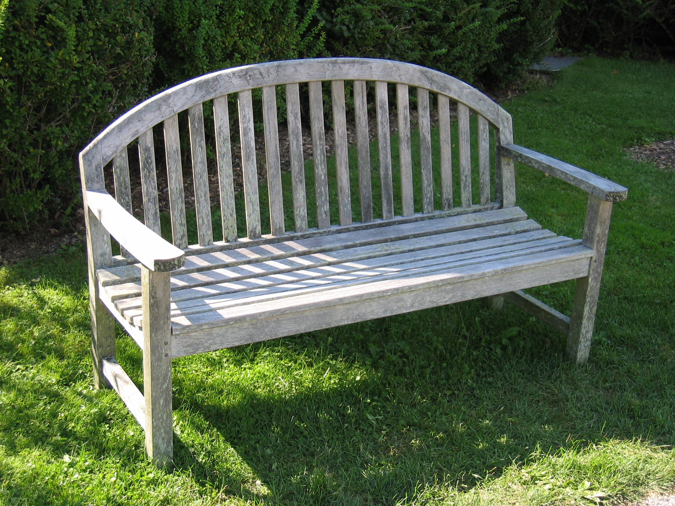 Photograph of a typical park bench, taken by Rmrfstar.